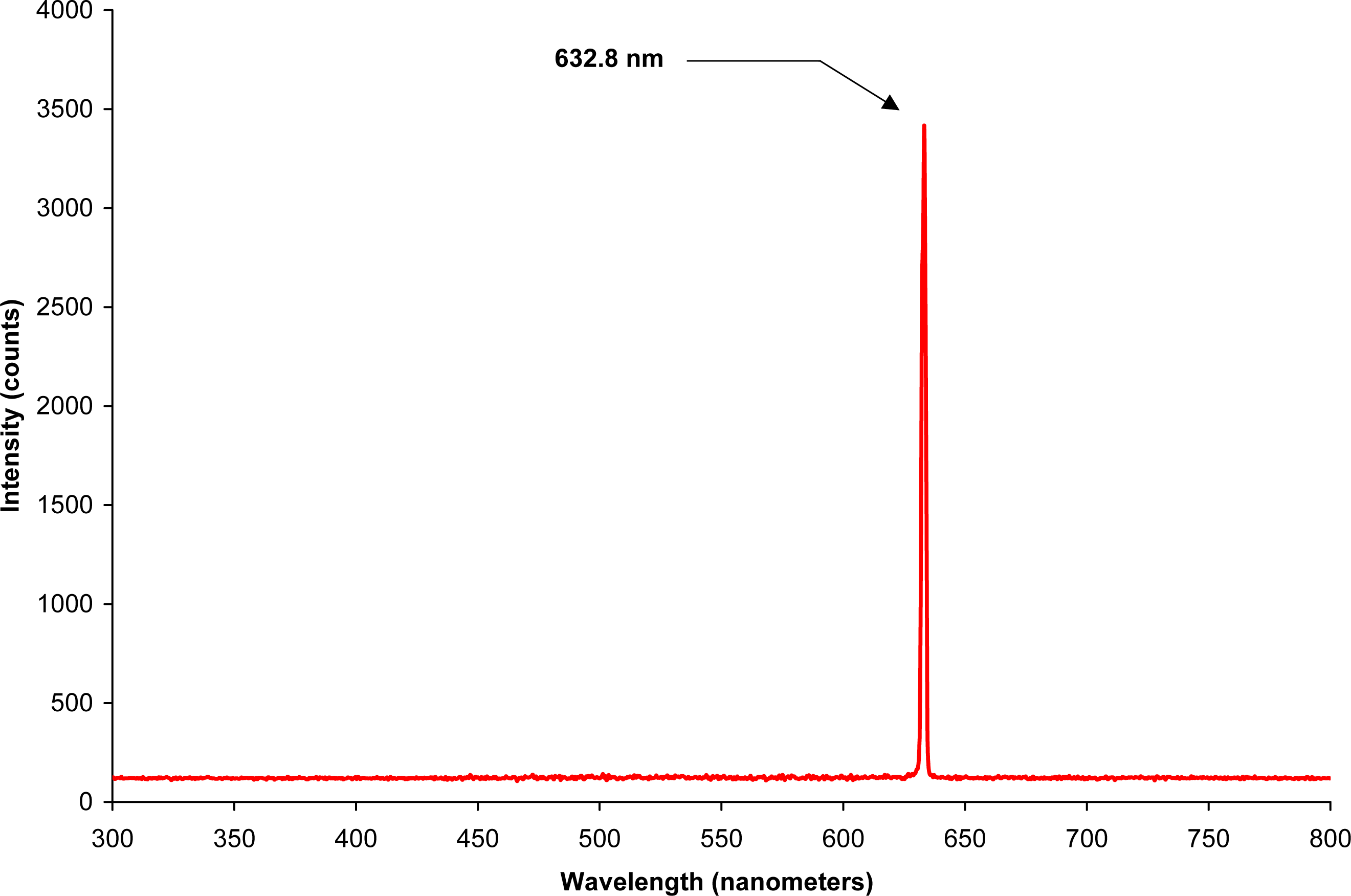 Spectrum of a Helium neon laser taken using an Ocean Optics HR2000 spectrometer [1] by bouncing the laser off of a white benchtop and guiding the diffuse reflected light directly into the spectrometer. The emission spectrum of the HeNe laser is even more monochromatic than seen here (it is typically around a mere 2 picometers in bandwidth) and the broadening of the peak in this spectrum is actually a result of the imperfect optics and scattering of light inside the spectrometer which results in some light being detected on the parts of the (linear CCD) sensor which surround the central peak. A very high resolution spectrum of a Brillouin scattered HeNe laser can be seen here [2] for reference. Spectrum taken by me.